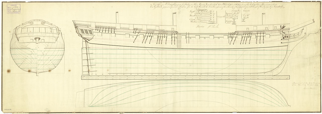 INCONSTANT 1783 lines